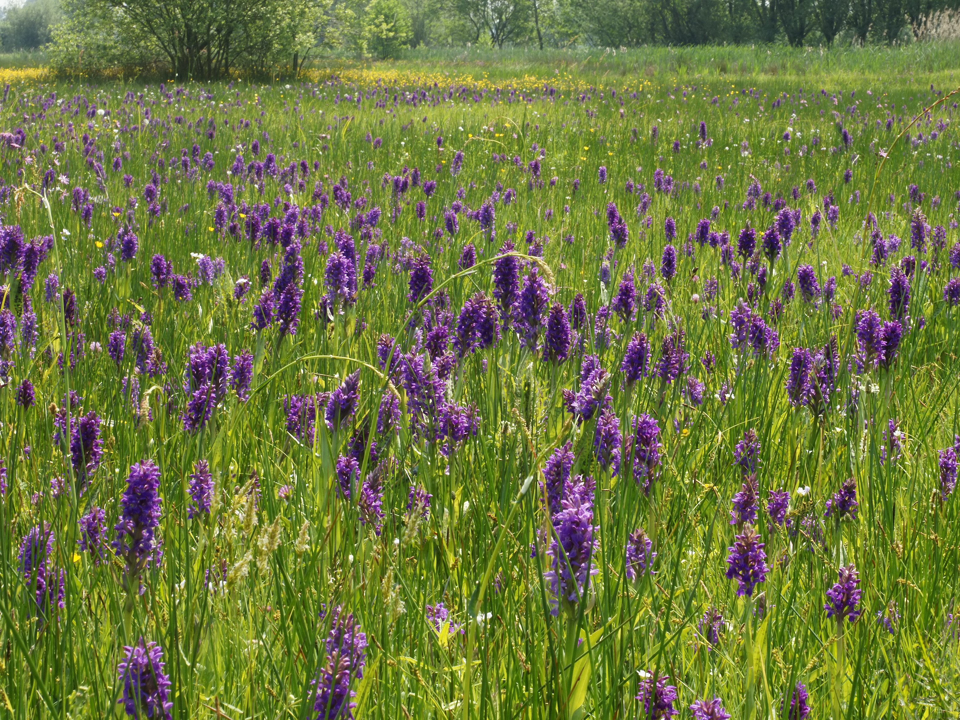 Western marsh-orchids.